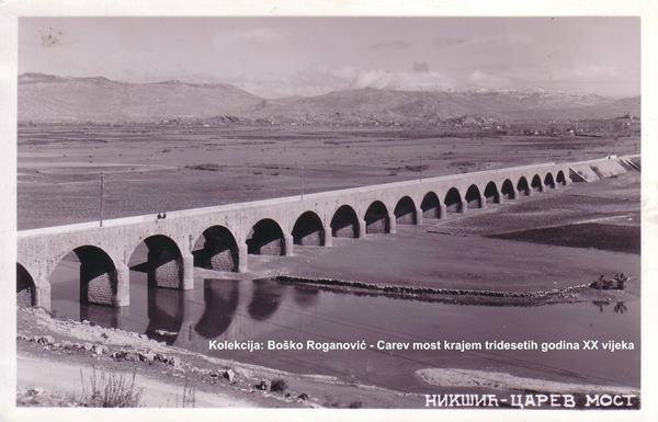 Carev most near Niksic, Montenegro in 1930s